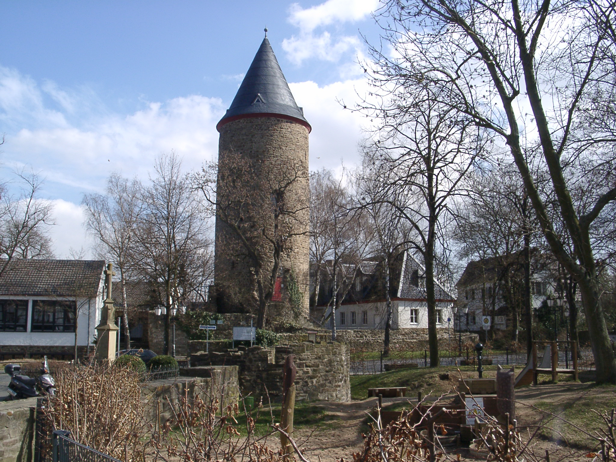 Hexenturm in Rheinbach, Germany.